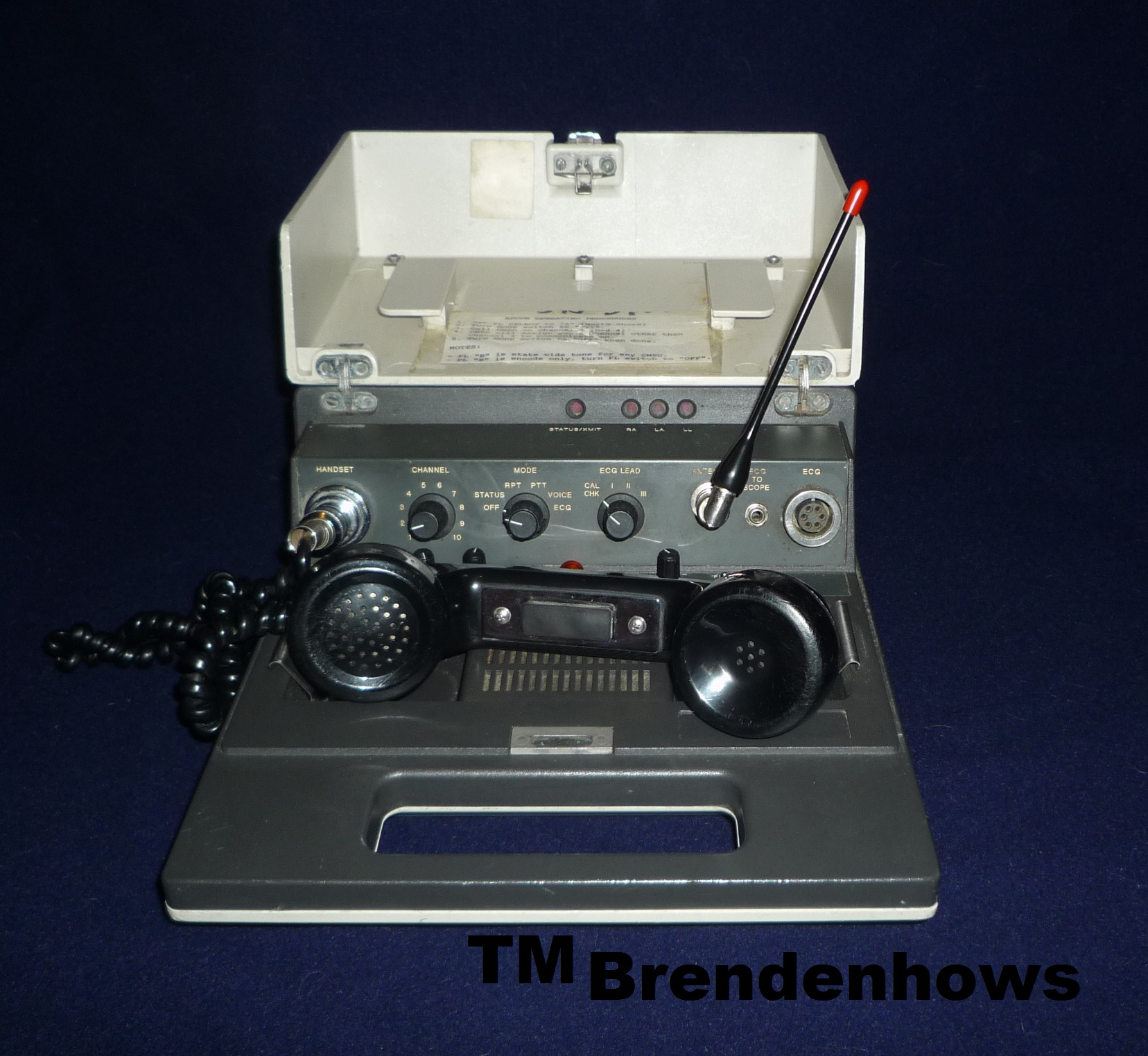 Motorola Apcor Paramedic EKG Telemetry Radio; 1970s